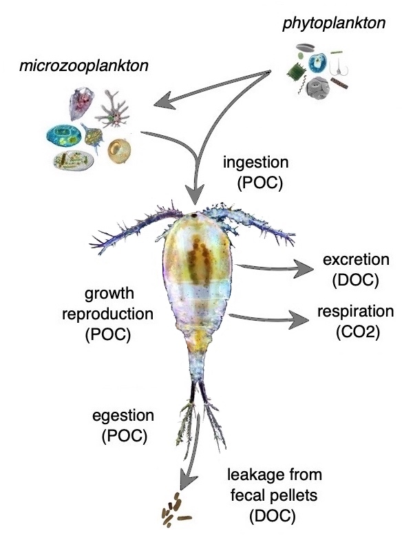 Sloppy feeding by zooplankton. DOC = dissolved organic carbon. POC = particulate organic carbon. Adapted from Møller et al. (2005), Saba et al. (2009) and Steinberg et al. (2017): Møller EF, Thor P, Nielson TG (2003) "Production of DOC by Calanus finmarchicus, C. glacialis and C. hyperboreus through sloppy feeding and leakage from fecal pellets". Marine Ecology Progress Series, 262: 185–91. Saba GK, Steinberg DK, Bronk DA (2009) "Effects of diet on release of dissolved organic and inorganic nutrients by the copepod Acartia tonsa". Marine Ecology Progress Series, 386: 147–61. Steinberg, D.K. and Landry, M.R. (2017) "Zooplankton and the ocean carbon cycle". Annual Review of Marine Science, 9: 413–444.